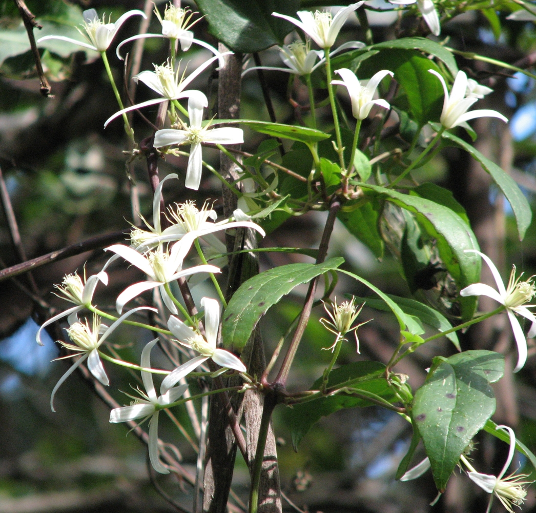 Clematis aristata Baw Baw National Park, Victoria, Australia